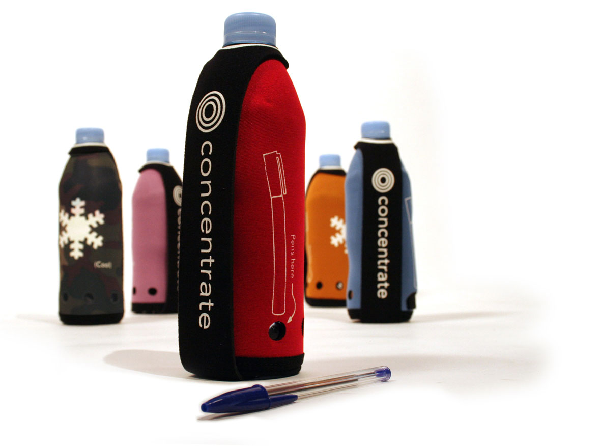 Bottlecoolerpenholders by Mark Champkins